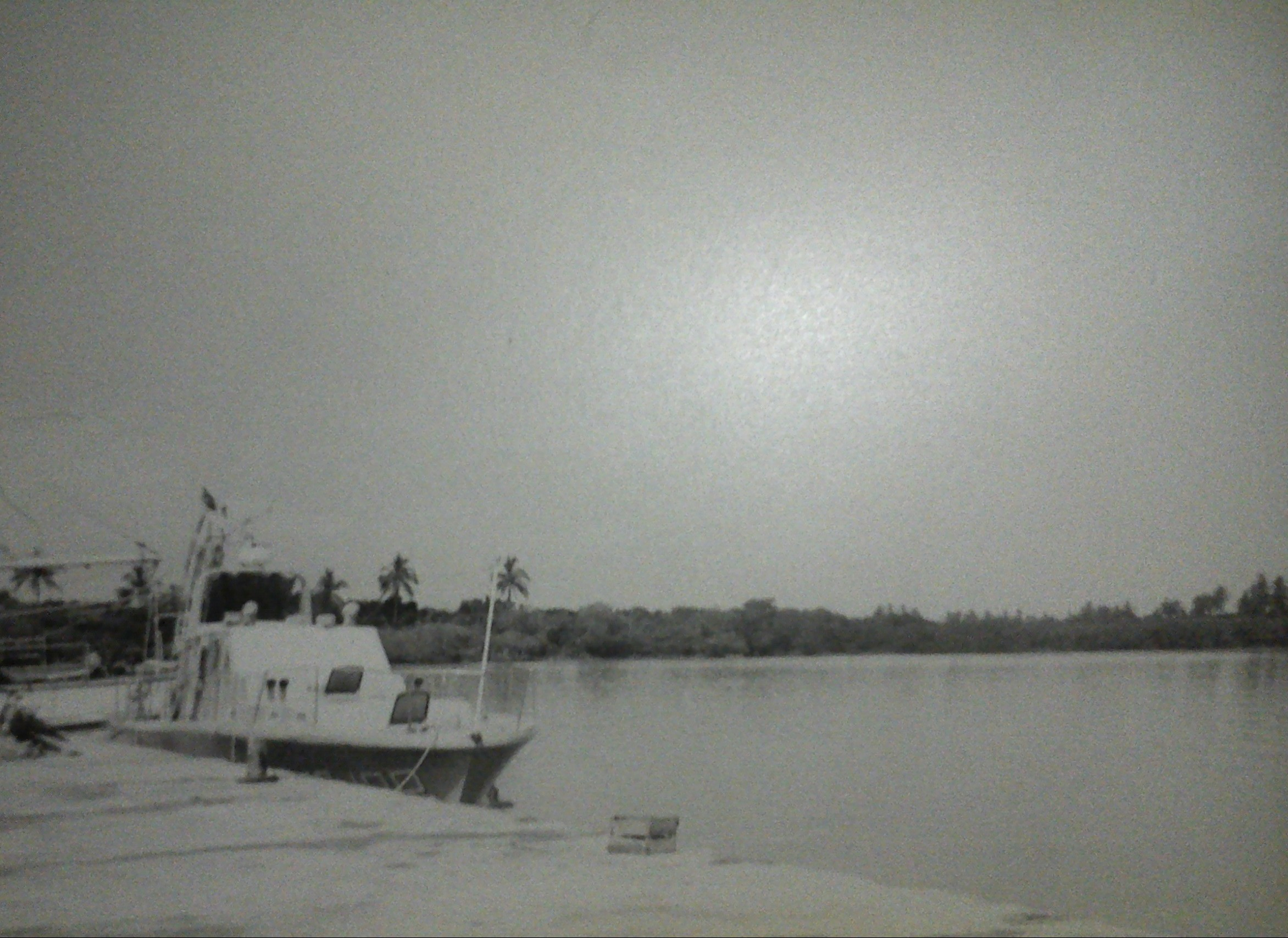 Dock in San Blas, Nayarit, México